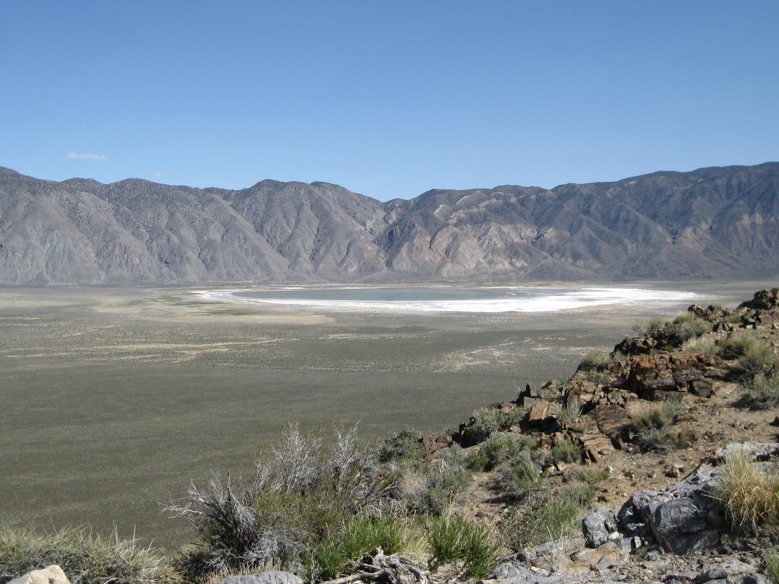 Photographer: Ryan Mikulovsky Location: Shot from within the Poleta Folds on April 30, 2011.